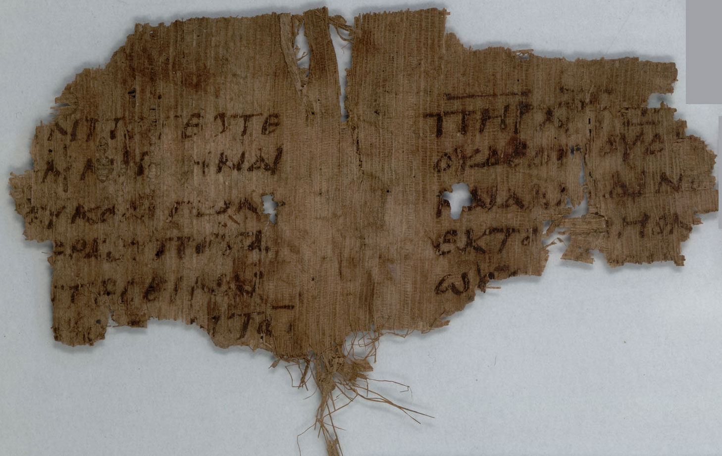 Nicene Creed, P.Oxy.XVII 2067